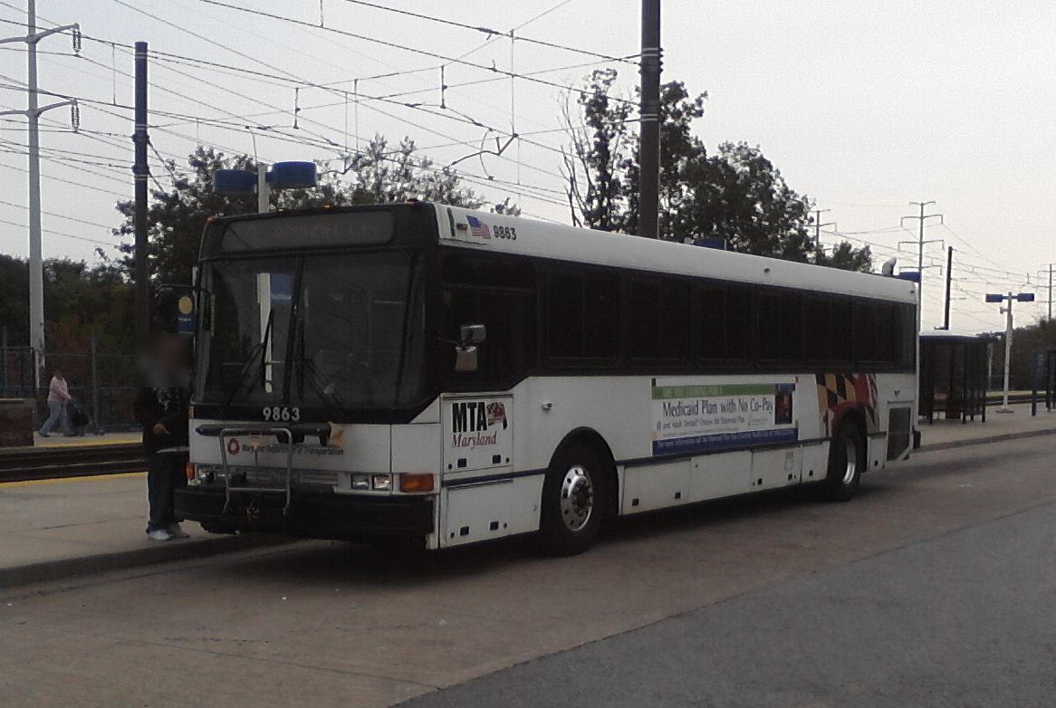 MTA Maryland NABI #9863 at Patapsco Station